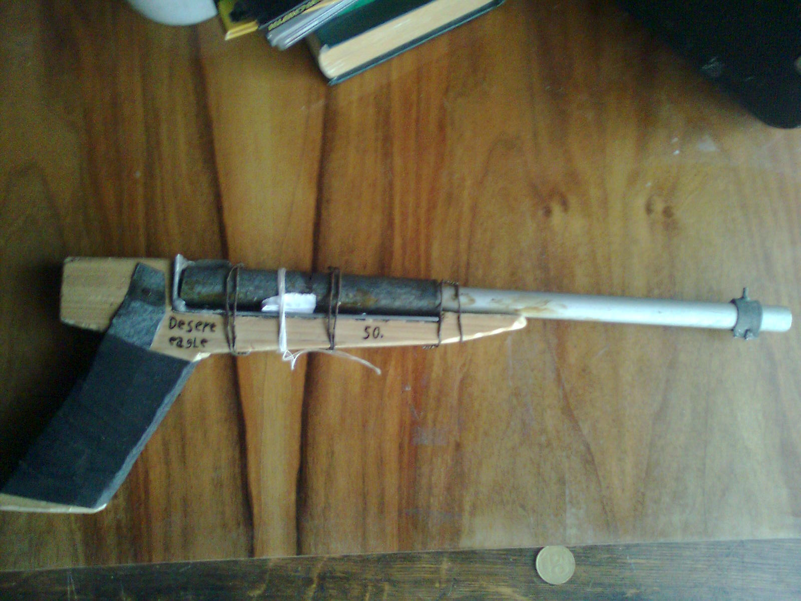 Tis is my own work. I shot zip gun (handmade pistol)